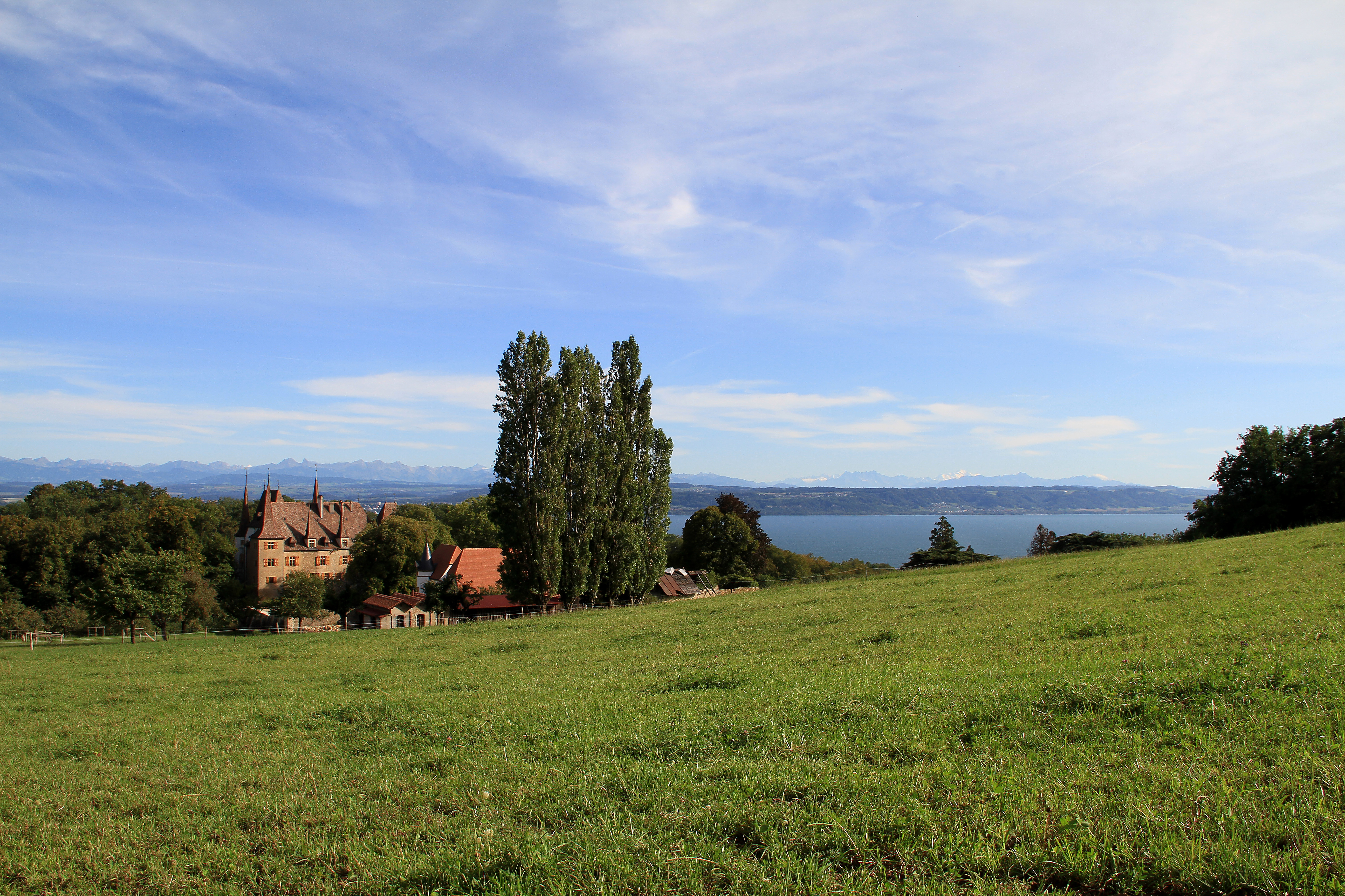 Château de Gorgier in front of the Alps.